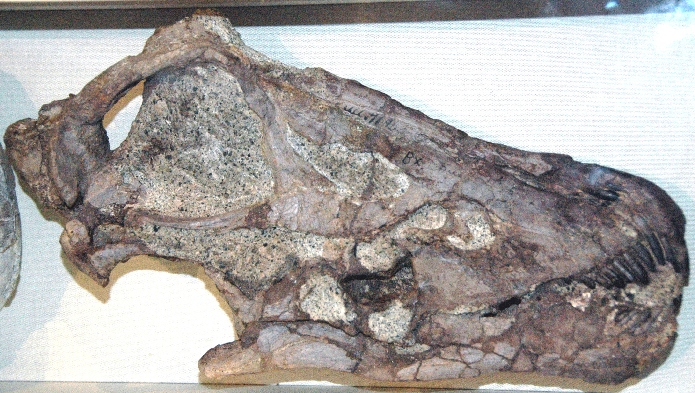 Diplodocus sp. (or Diplodocinae indet., or Barosaurus) juvenile sauropod dinosaur skull (29.2 cm long) from the Jurassic of Utah, USA (public display, CM 11255, Carnegie Museum of Natural History, Pittsburgh, Pennsylvania, USA). This remarkable, complete, juvenlle Diplodocus skull was described in Whitlock et al. (2010). This specimen cannot be identified with certainty to the species level, as it was not associated with post-cranial skeletal elements. Classification: Animalia, Chordata, Vertebrata, Dinosauria, Sauropodomorpha, Diplodocidae Stratigraphy: Brushy Basin Member, Morrison Formation, Upper Jurassic, 151 Ma Locality: Carnegie Quarry, Dinosaur National Monument, northeastern Utah, USA Reference cited: Whitlock, J.A., J.A. Wilson & M.C. Lamanna. 2010. Description of a nearly complete juvenile skull of Diplodocus (Sauropoda: Diplodocoidea) from the Late Jurassic of North America. Journal of Vertebrate Paleontology 30: 442-457. Sauropod dinosaurs were the largest terrestrial animals ever. They all have the same basic body plan: large body with four walking legs, very long neck & tail, and a small head relative to body size. Sauropods were herbivores, and are often perceived as holding their heads & necks up high to reach vegetation normally out of reach to other organisms. Modern reconstructions of many sauropod species depict them with heads and necks held close to the horizontal, or at low angles above the horizontal.